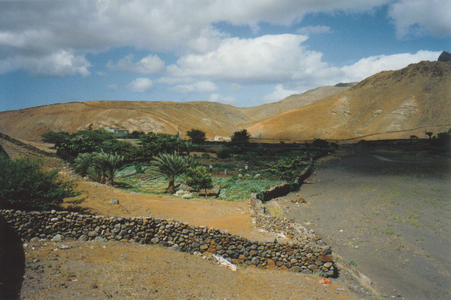 Ribeira de Calhau, São Vicente Island, Cape Verde. Farm-oasis